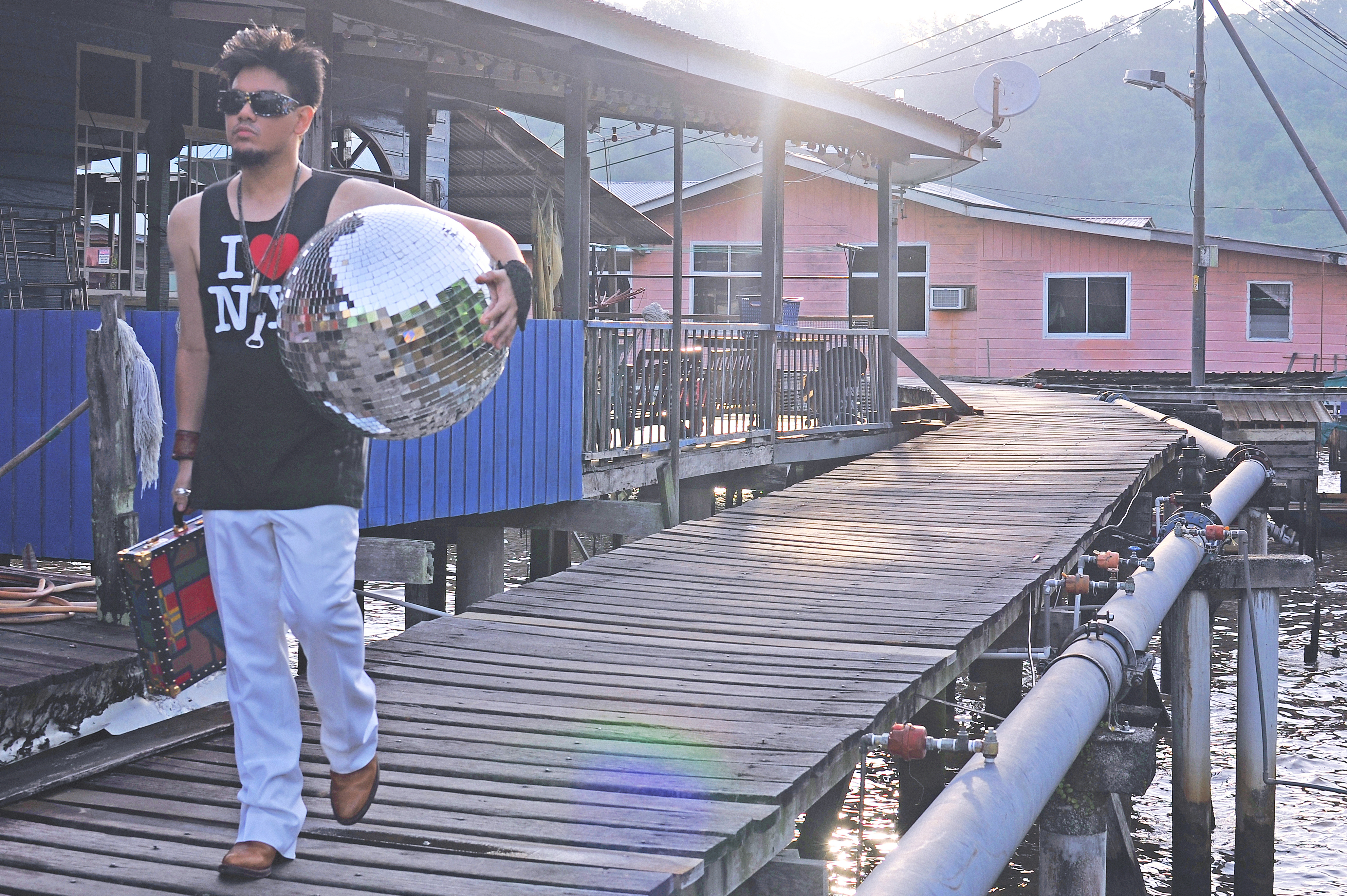 Prince Azim of Brunei in Kampong Ayer, April 2014.